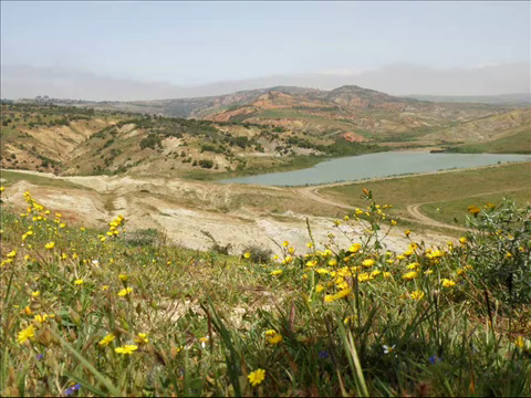 Dahra - Mostaganem Province - Algeria